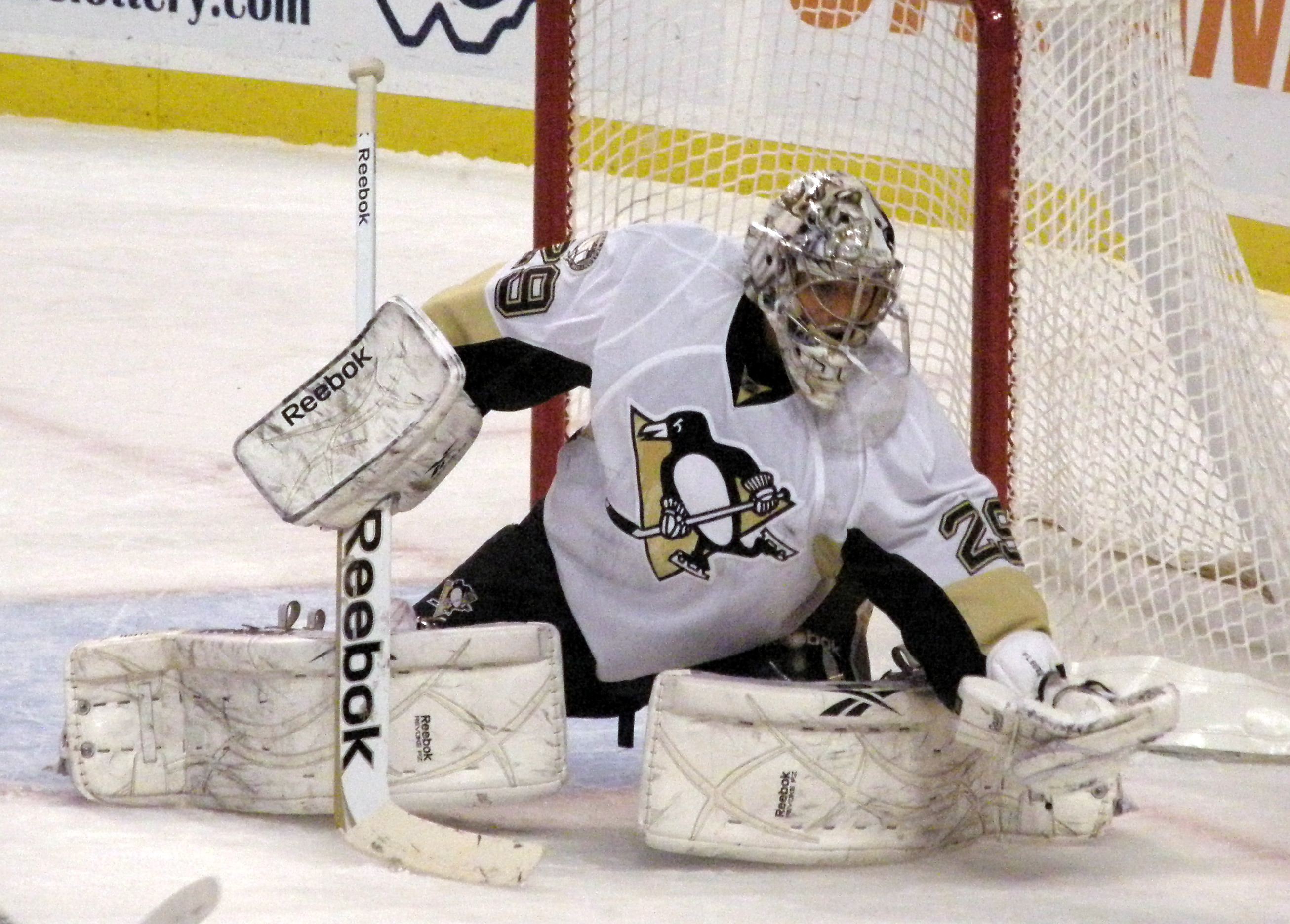 29 Marc Andre Fleury (G, PIT) Photos from the Pittsburgh Penguins at Boston Bruins NHL game on 2011-01-15, TD Banknorth Garden